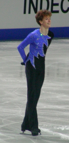 Pavel Kaška on the 2007 European Figure Skating Championships in Warsaw - after free skate